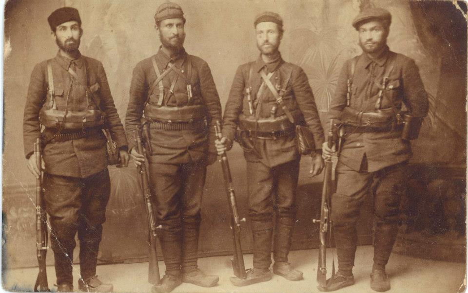 Cheta of Kocho Molerov, from left is Dimitar Lazarov